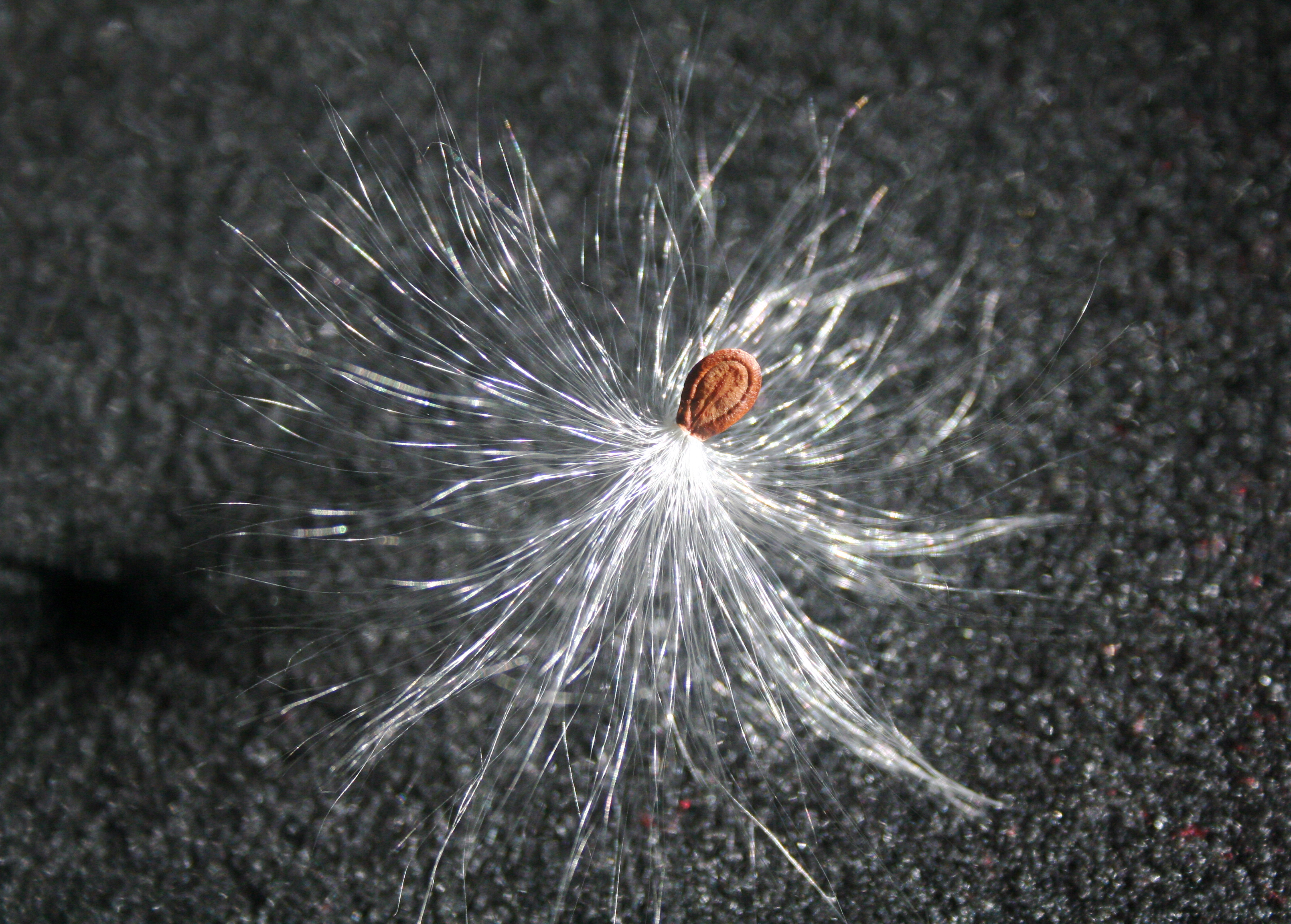 Milkweed (Asclepias spec.) Seed, Hyannis, Cape Cod, Massachusetts, USA